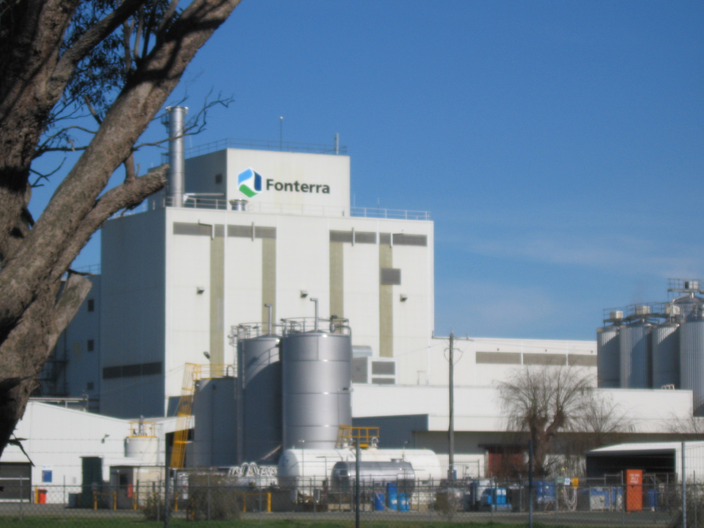 Fonterra factory in Stanhope, Victoria